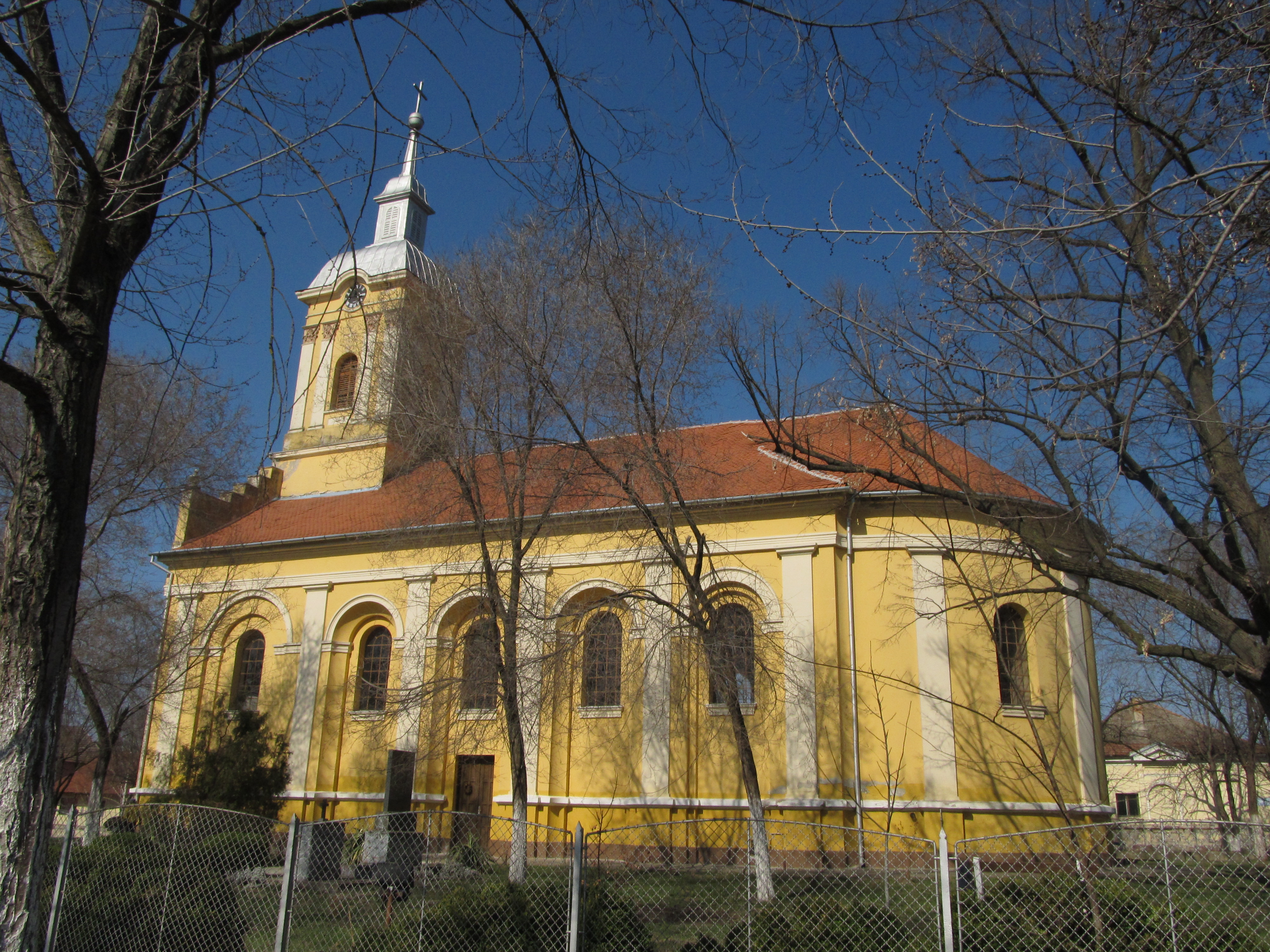 Romanian Orthodox church in Ečka - southern facade